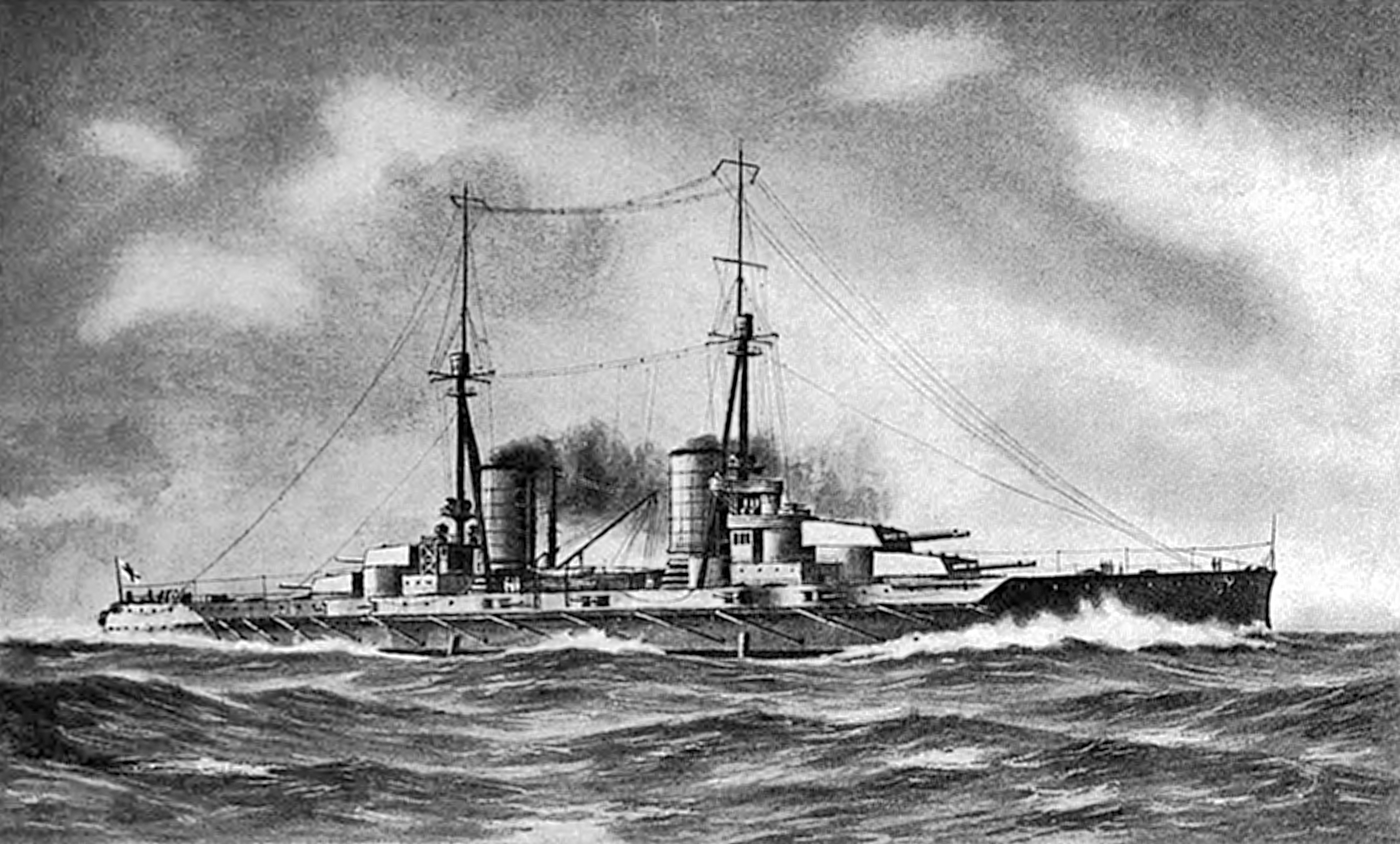 Illustration of the Greek battleship Salamis, had it been completed during World War I and placed in German service